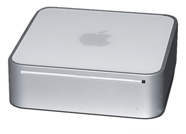 An Intel Mac mini, derived from the derivation of this photograph from flickr, taken by Chris Lawrence (lordsutch) and released under CC-BY-SA-2.0. I just added the transparent background.